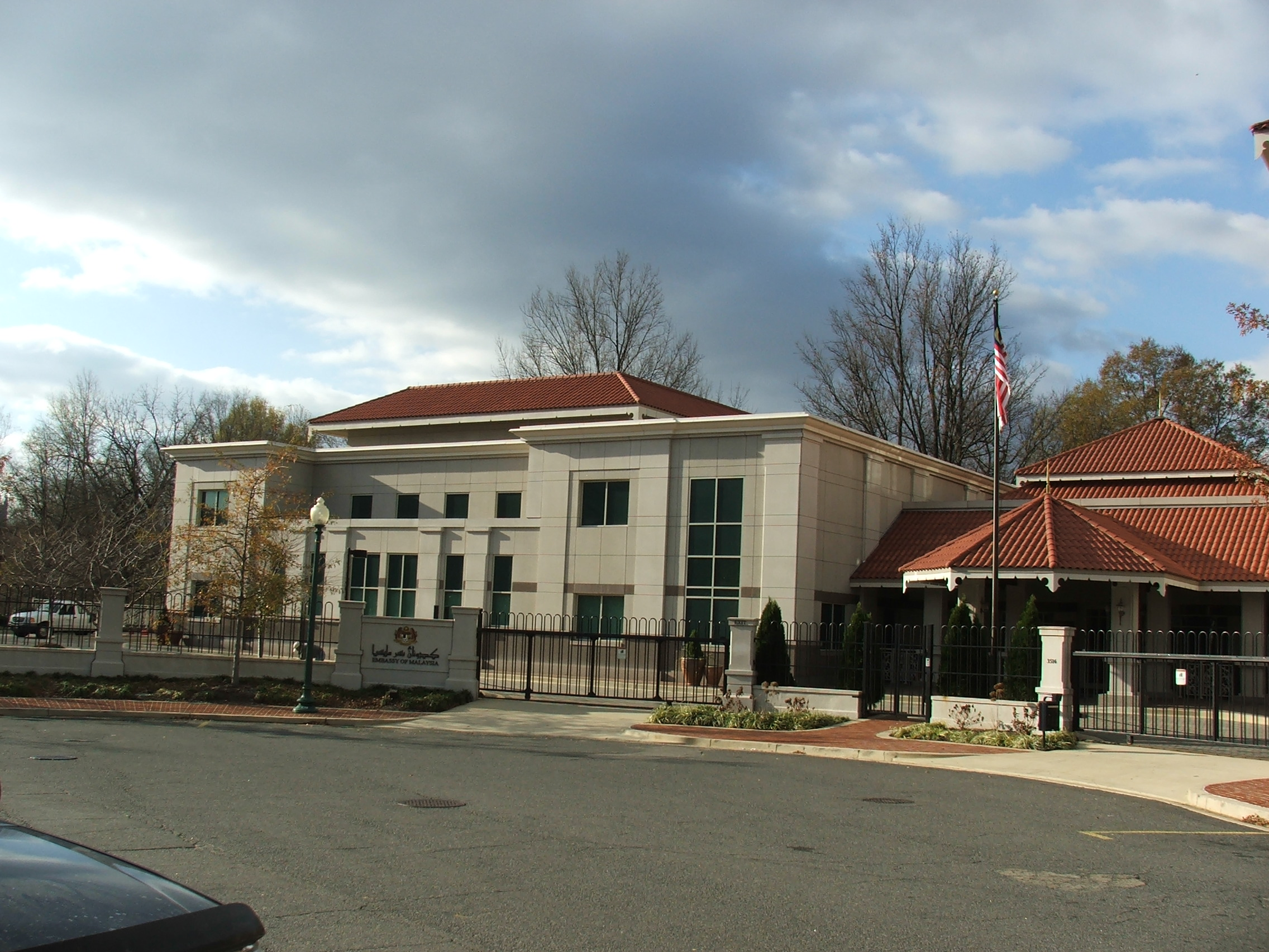 Embassy of Malaysia in the United States, located at 3516 International Court NW in Washington, D.C.